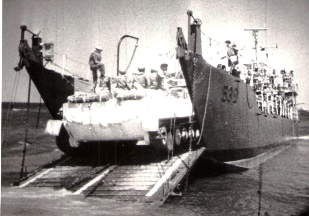 LCT 36m upload BTR carrier.